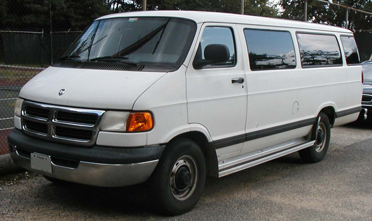 1998-2003 Dodge Ram wagon photographed in USA.